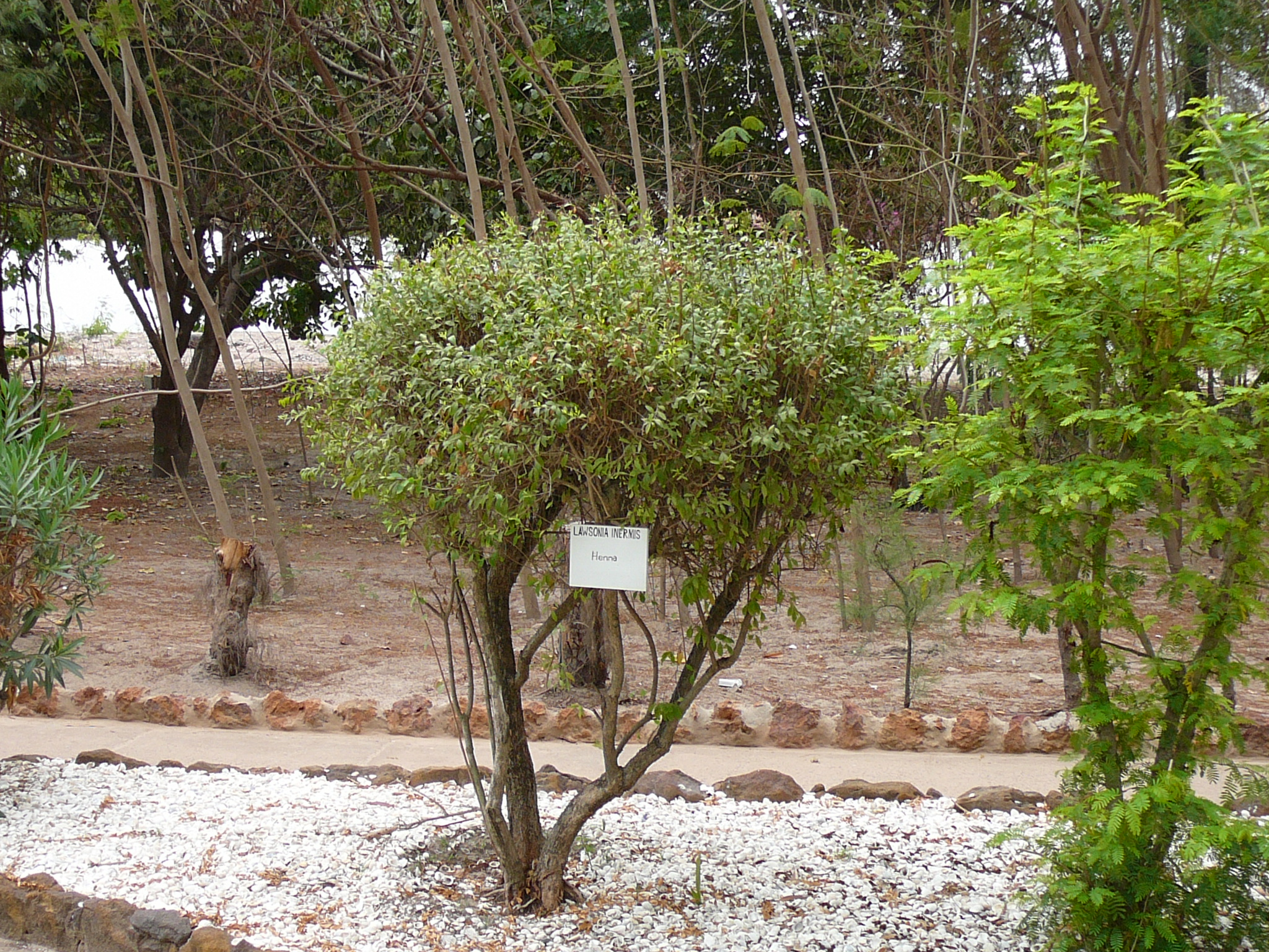 Henna